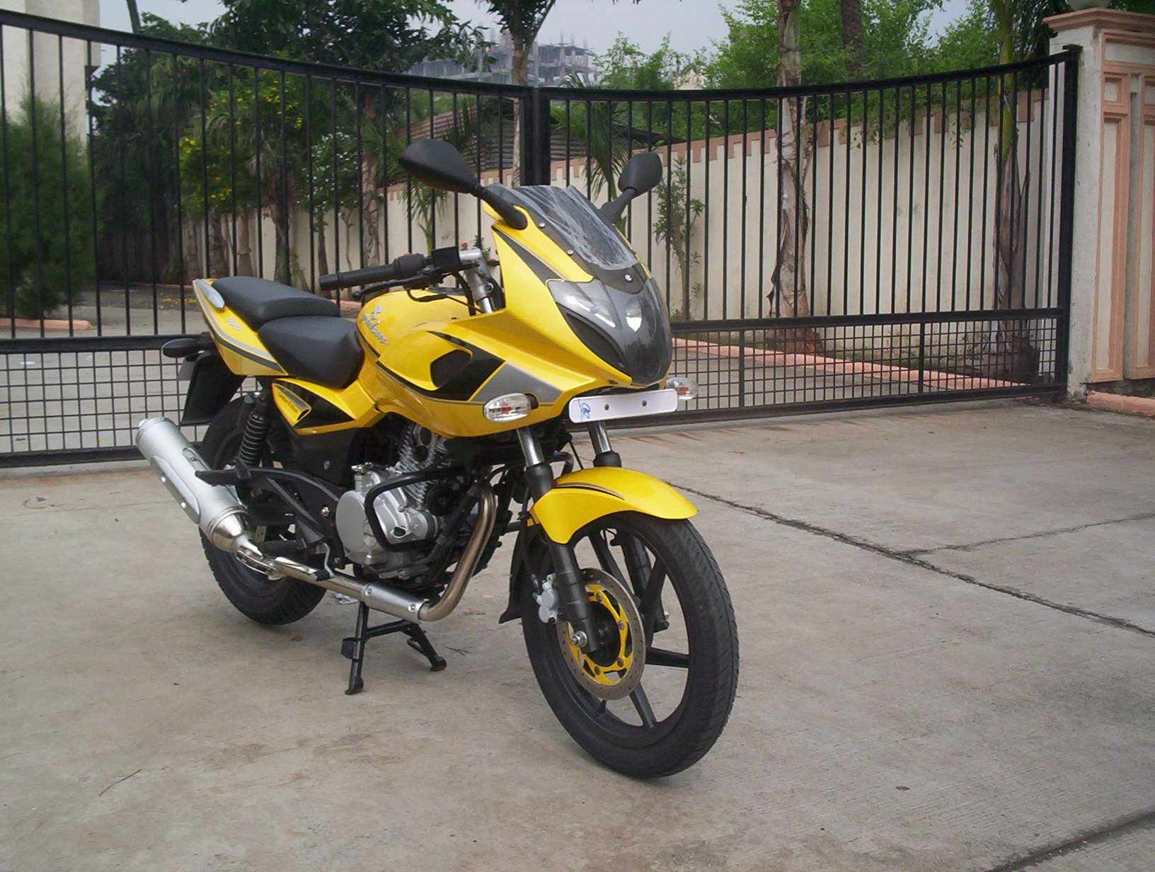 honder